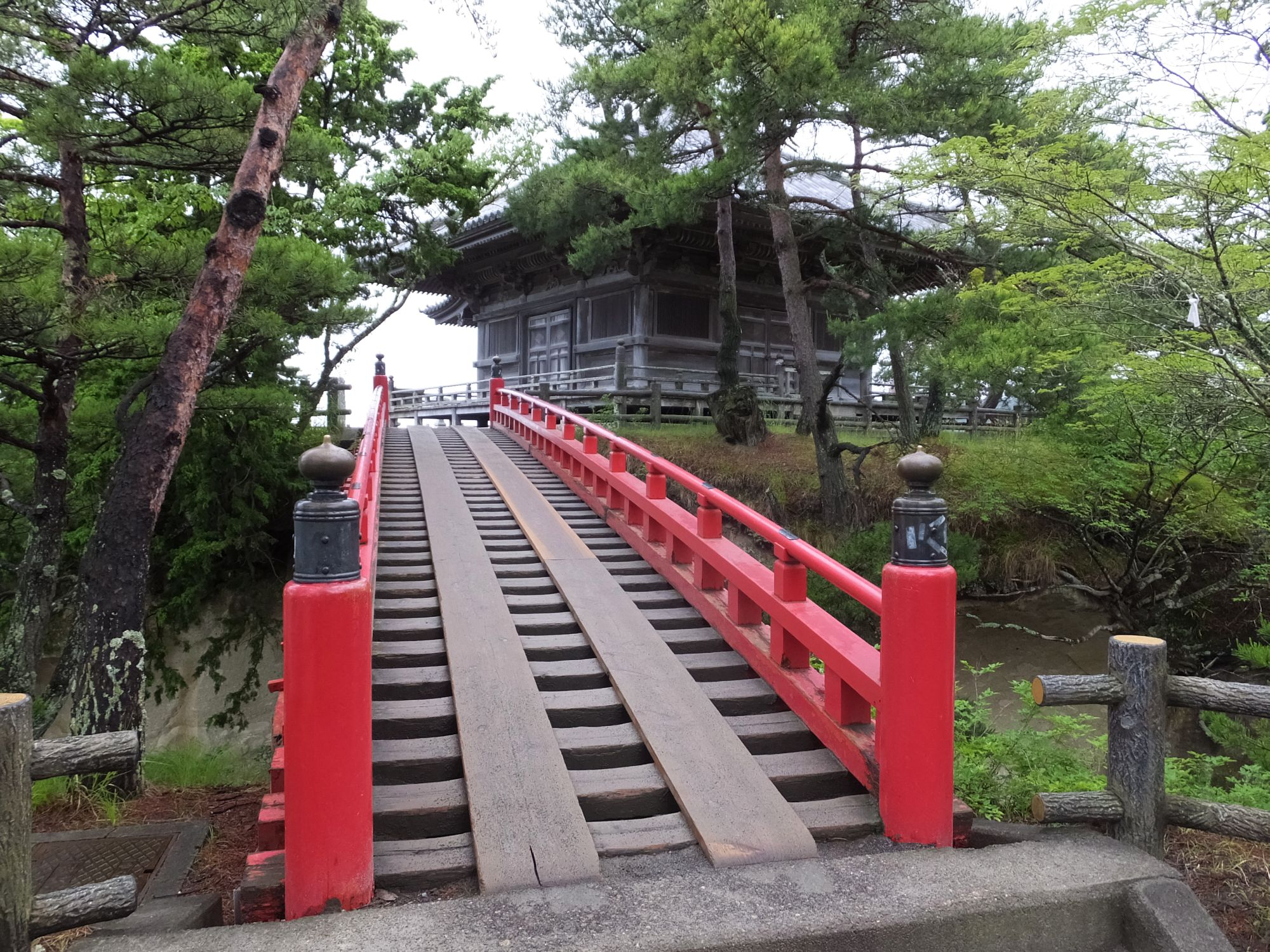 The bridge to Godaidō hall in Matsushima, Miyagi